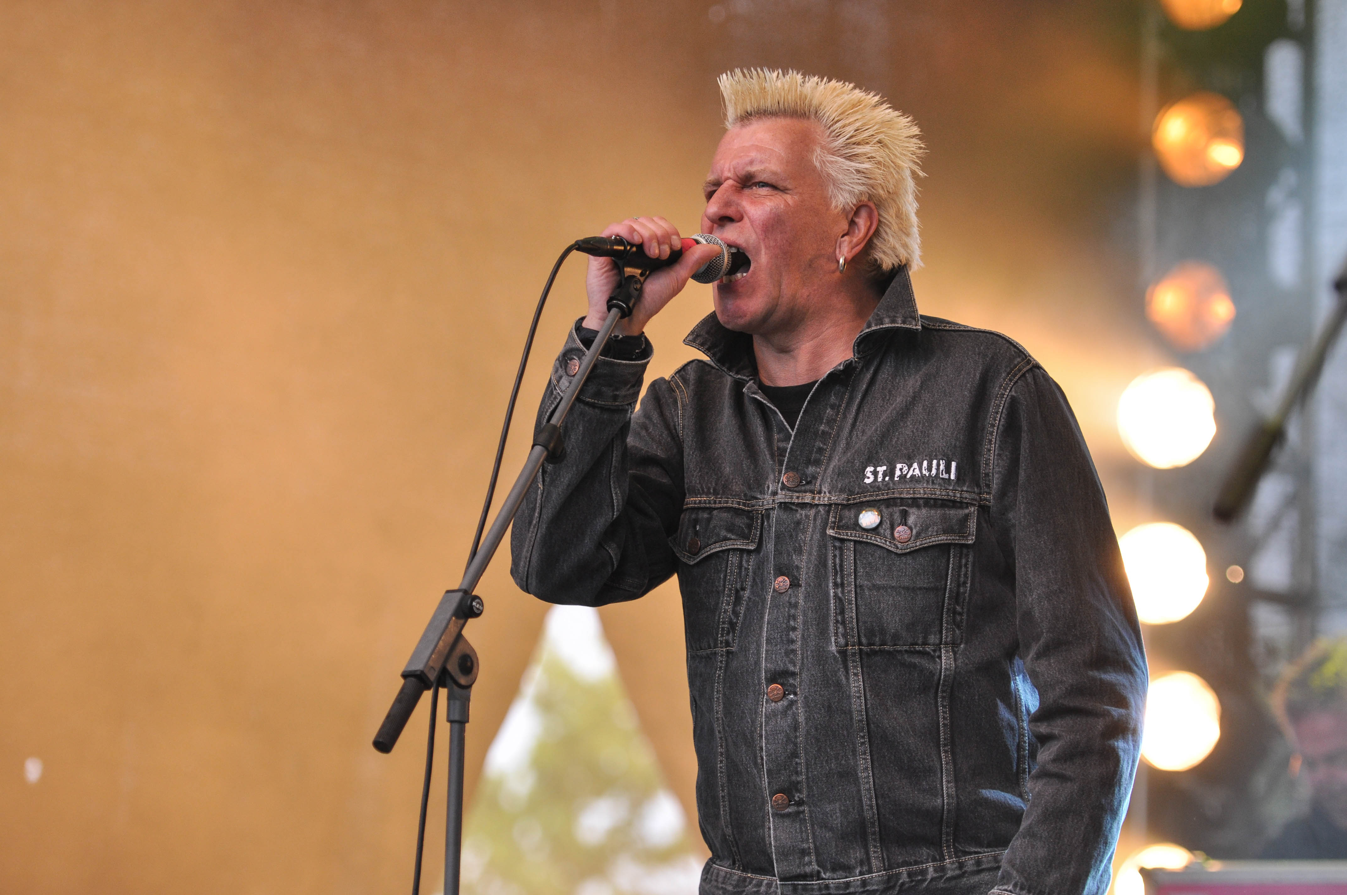 Festivalsommer This photo was created with the support of donations to Wikimedia Deutschland in the context of the CPB project "Festival Summer".